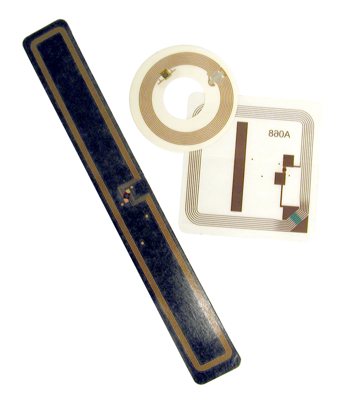 Types of RFID tags used in libraries.